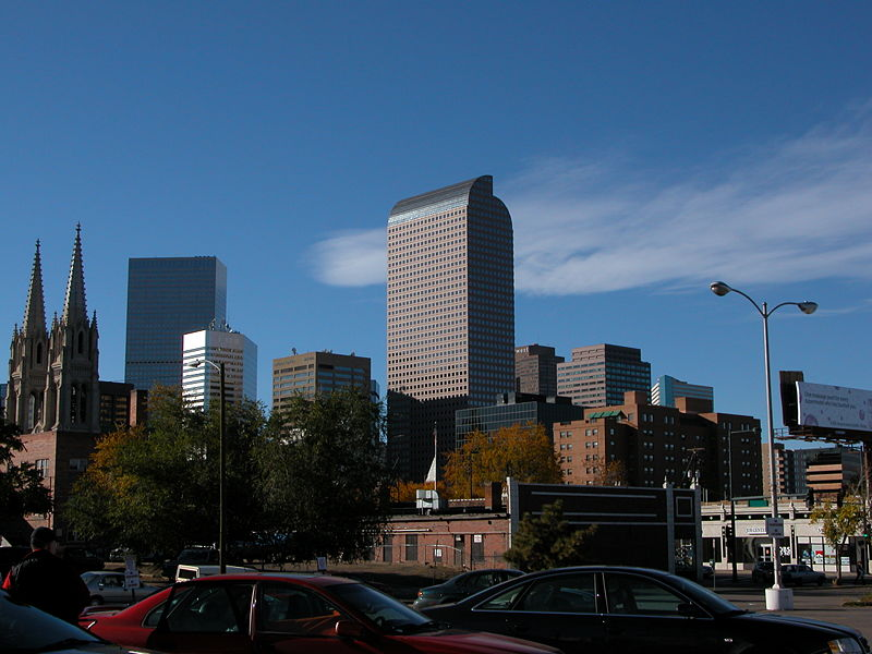 Denver, Colorado, Downtown.